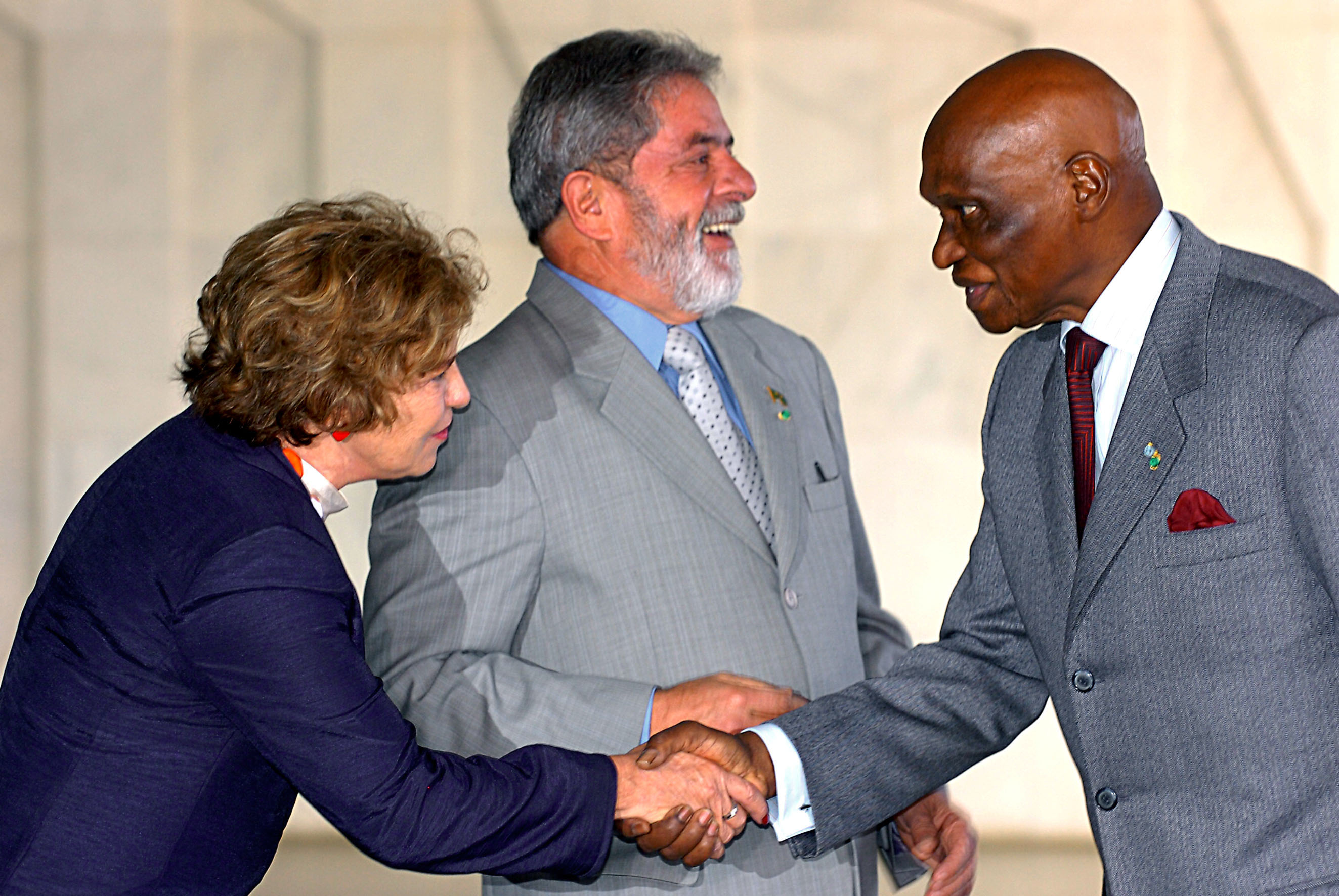 Abdoulaye Wade, President of Senegal, shaking hands with Marisa Letícia Lula da Silva, first lady of Brasil, during an official visit of Wade to Brasil.